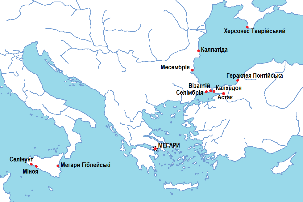 Map of the Megarean Colonies